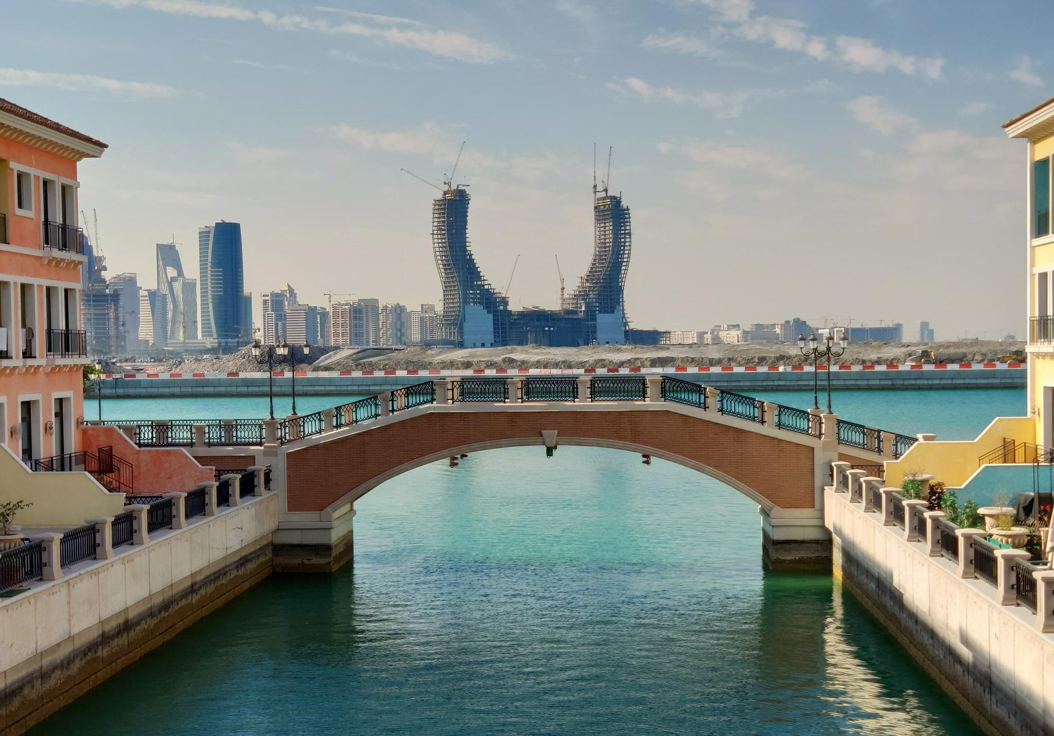 Lusail skyline with the under-construction Lusail Marina Iconic Development in the center. Photo was taken from The Pearl-Qatar.